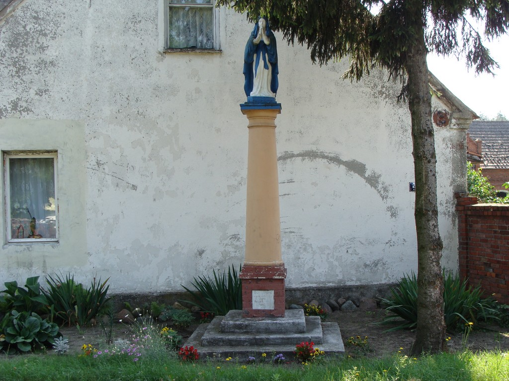 Olsza, roadside shrine.